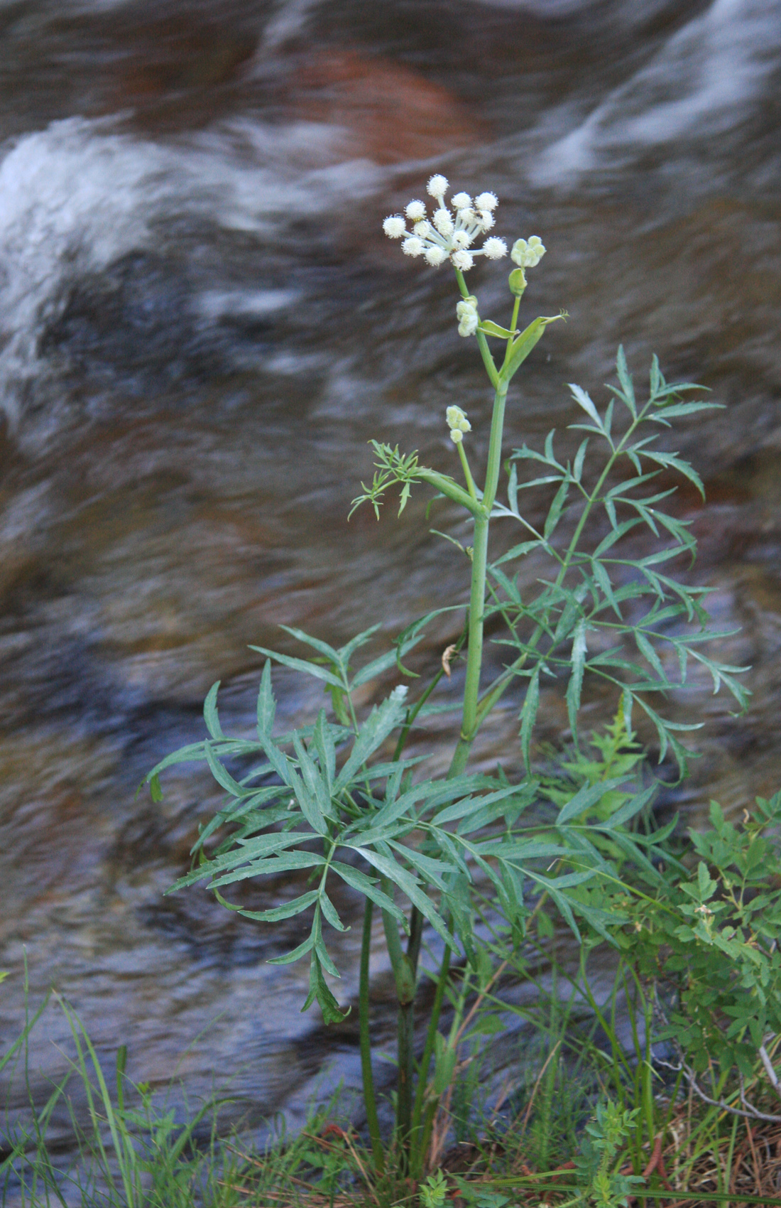 Ranger's buttons or swamp whiteheads (Sphenosciadium capitellatum), small plant on bank of Lower Rock Creek at 1900m. Mono County, California.